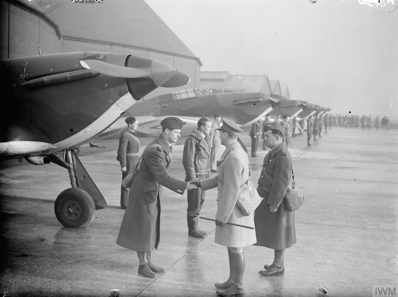 Royal Air Force 1939-1945- Fighter Command On 6 December 1939 King George VI, with the Duke of Gloucester and Viscount Lord Gort (Commander-in-Chief of the BEF), inspected RAF Air Component units at Lille-Seclin. Here the King greets Squadron Leader J. S. 'Johnny' Dewar, commanding No 87 Squadron, in front of a smart line-up of Hurricanes. Comment : Note original two-bladed propellers.